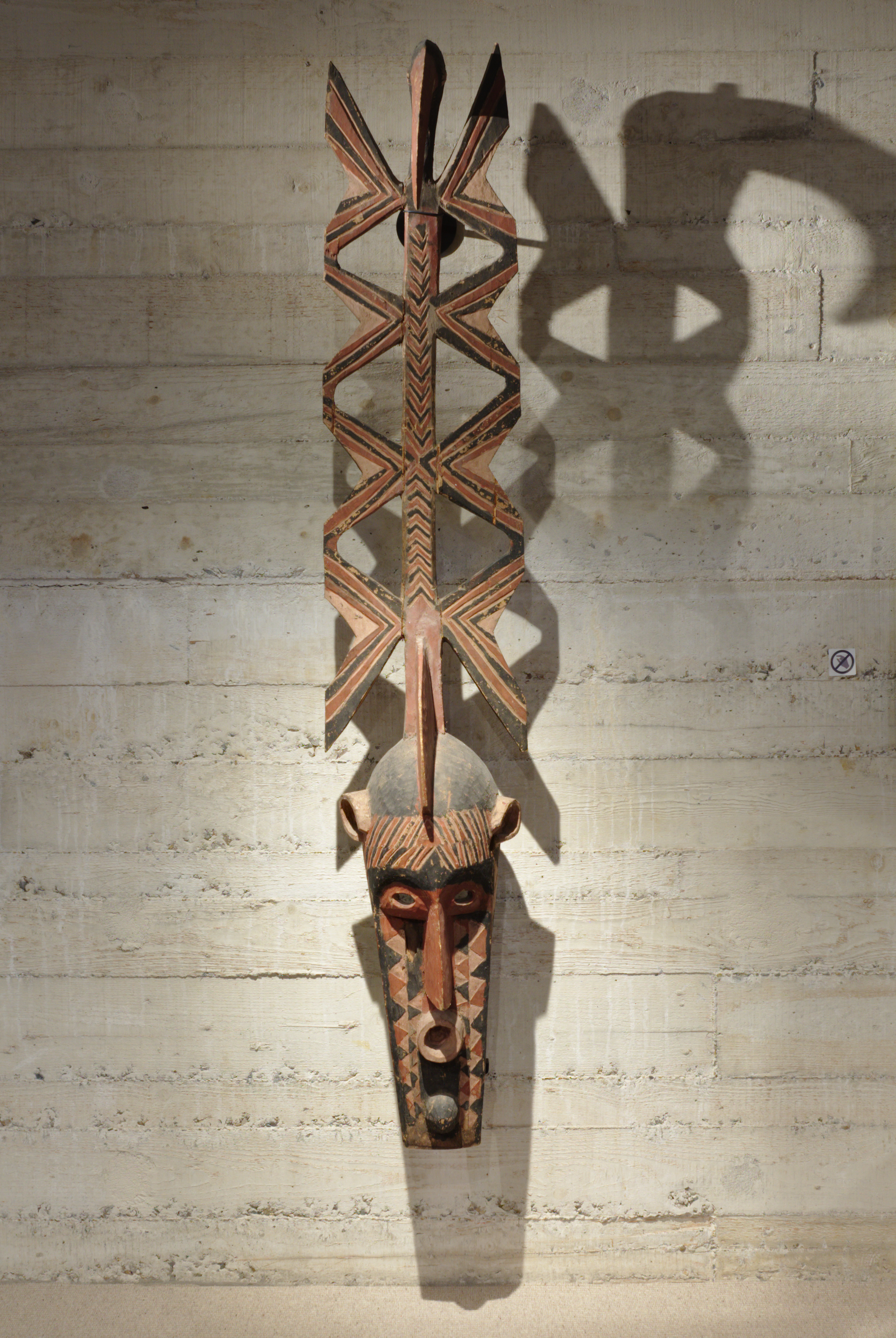 Bobo, Nwenka da muna mask from Burkina Faso Musée L in Louvain-la-Neuve This image is part of the Natural Image Noise Dataset